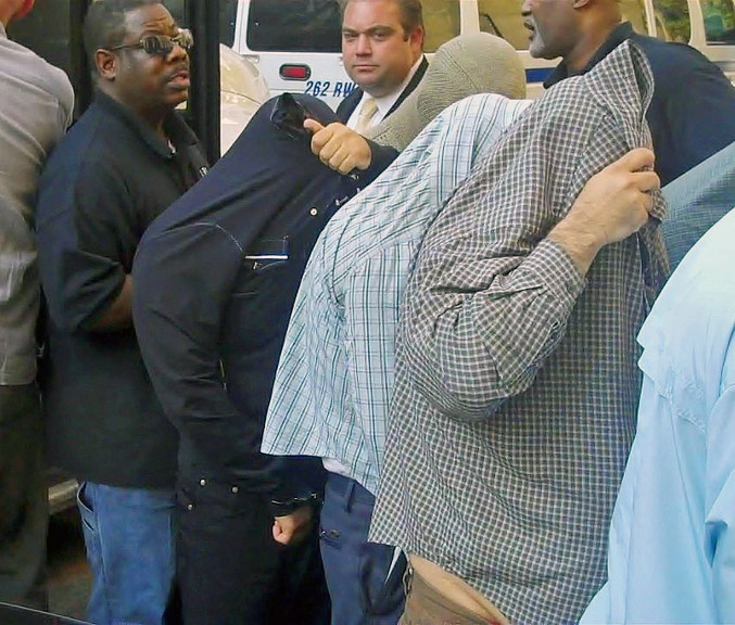 Manhattan Criminal Court NYC. taxi drivers said to charge riders with Rate Code 4 for trips that never left the city. That code, which doubles the rate, is supposed to be used only when a ride enters the suburbs. Drivers are concealing their faces as they take the customary perp walk before the news media.